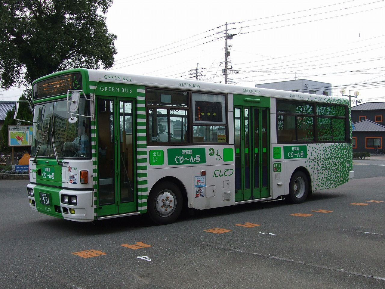 Nishitetsu Bus Shikanoshima Green bus Company:Nishitetsu Bus Munakata Use:transit bus Belongs to:Shingu Depot Car license:FOF 200 KA 551 Code:5718 Chassis manufacturer:Nissan Diesel Coachbuilder:Nishinippon Shatai Kogyo Location:at Saitozaki Station, Higashi-ku, Fukuoka City, Fukuoka, Japan.